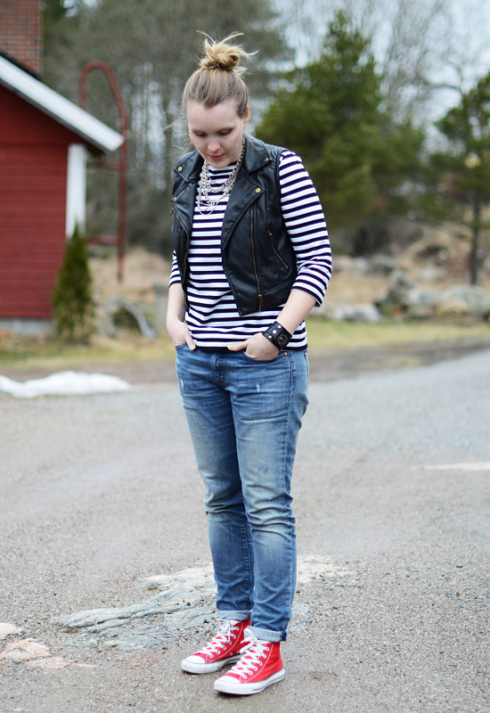 Young woman outdoors in marinière and leather jacket